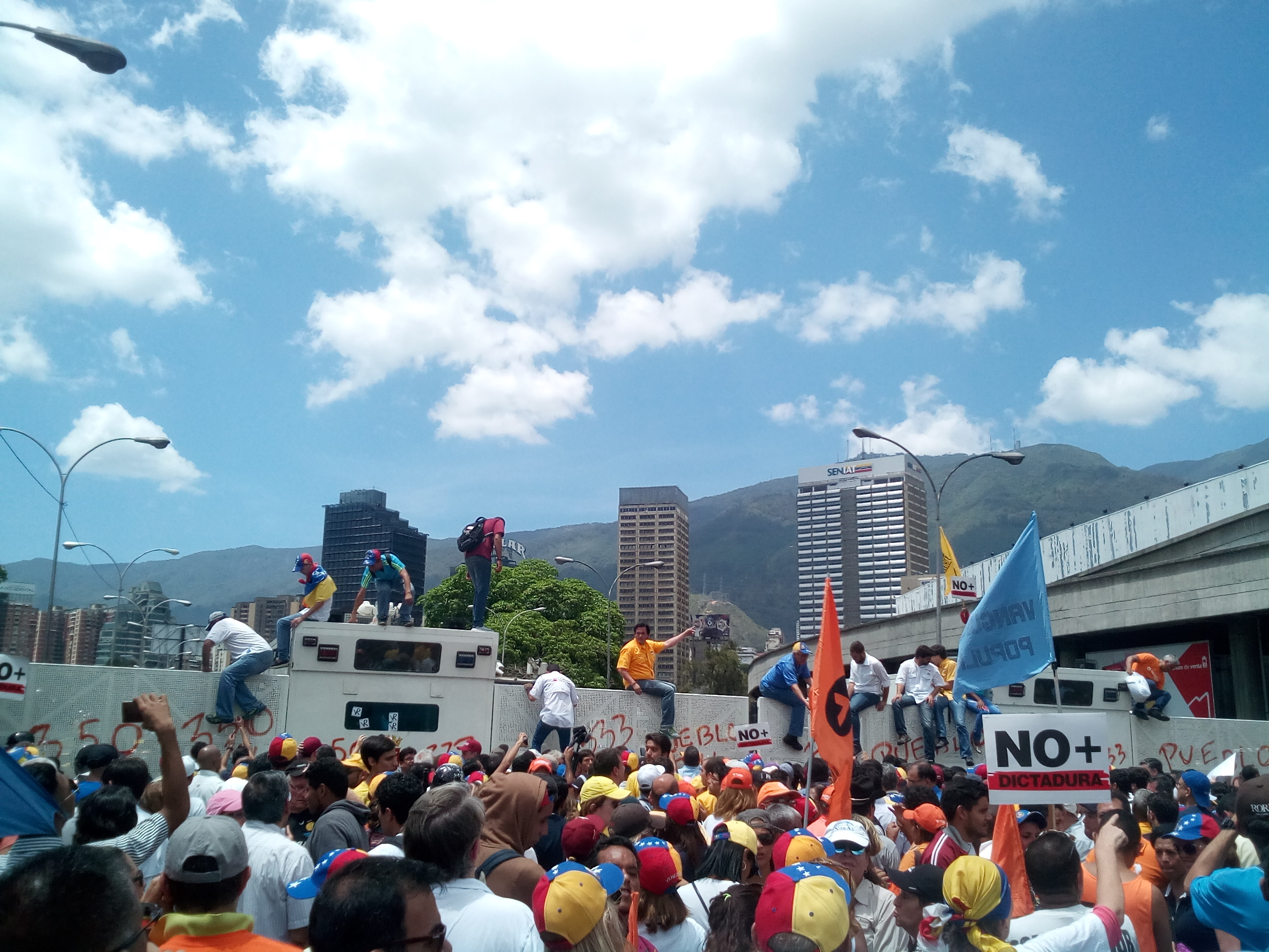 Opposition march meets with National Guard in Plaza Venezuela, Caracas, on 1 April 2017